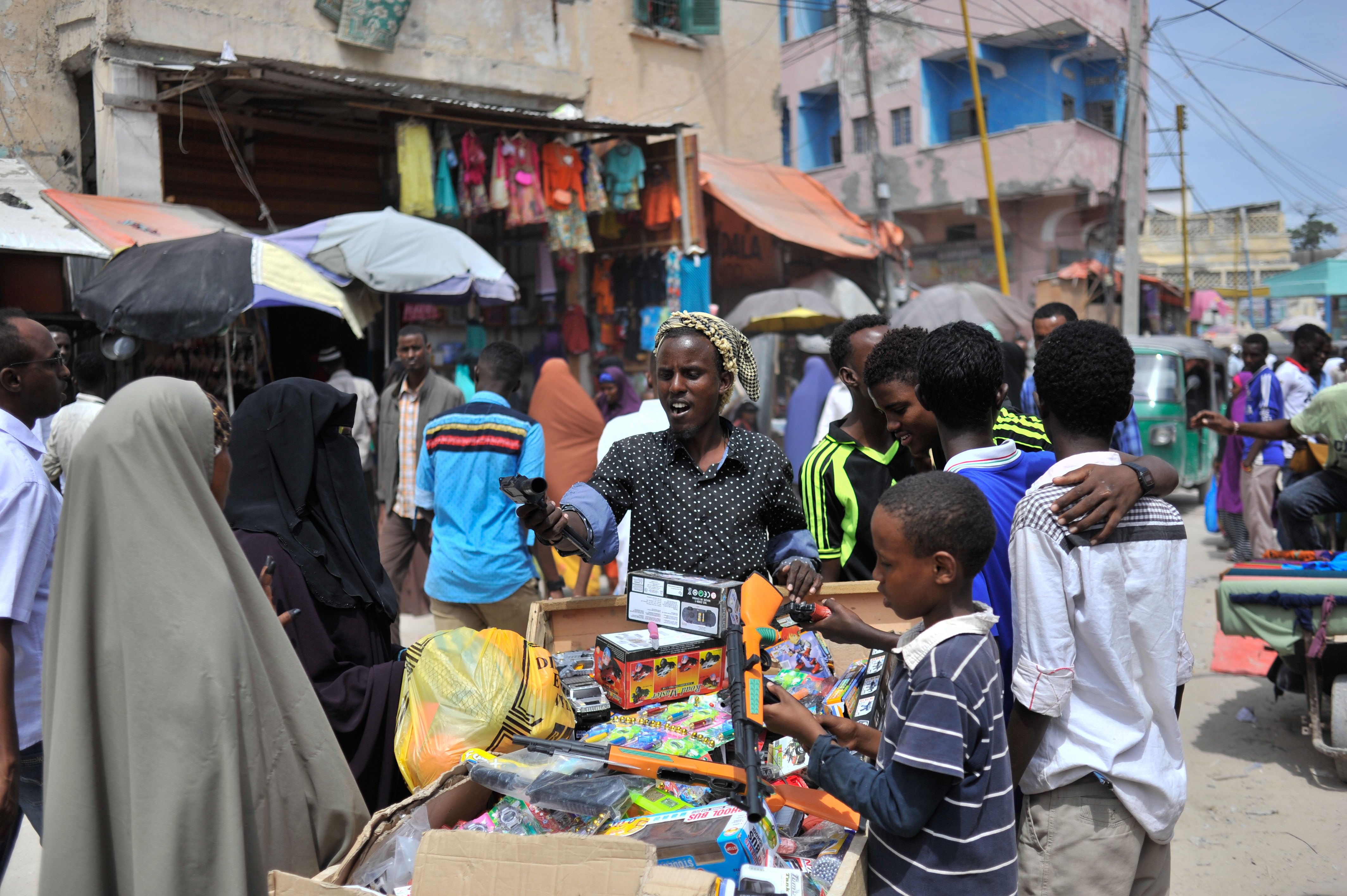 Shoppers in Hamarwayne market in Mogadishu Somalia on July 04, 2016 ahead of Eid el-Fitr celebrations. AMISOM Photo / Ilyas Ahmed